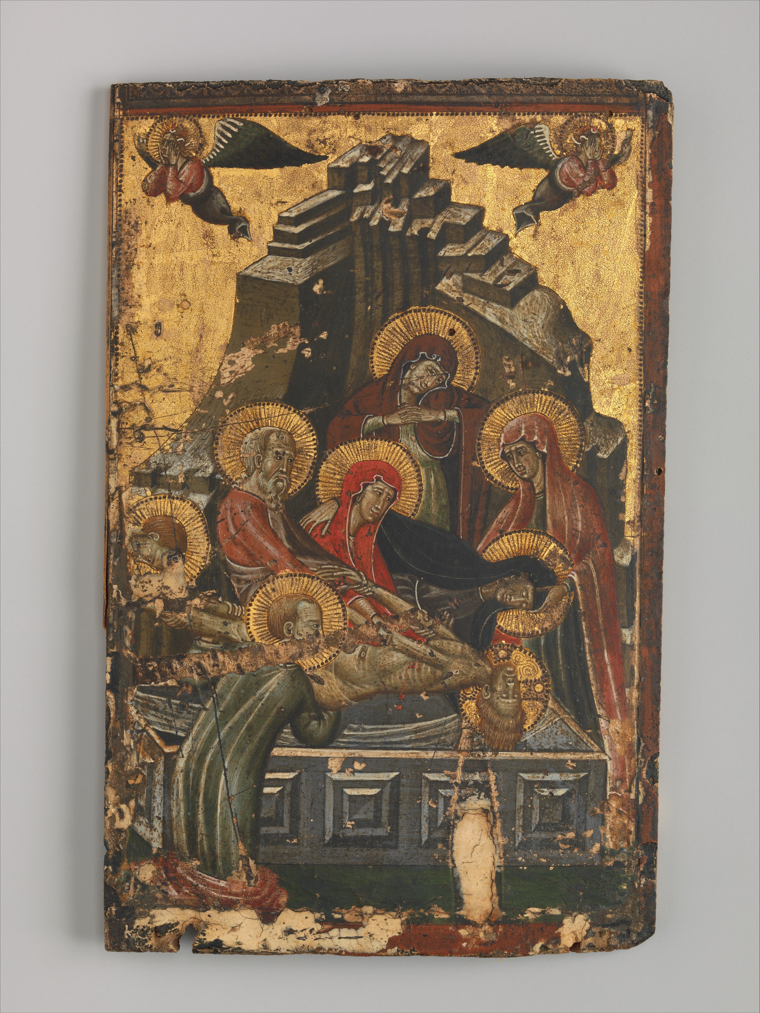 Master of Forlì (Italian, Romagna, active first half 14th century)The Entombment, first half 14th centuryItalian, Romagna,Tempera on wood, gold ground; Overall: 8 x 5 1/8 in. (20.3 x 13 cm); Painted Surface (excluding painted borders): 7 3/8 x 4 7/8 in. (18.7 x 12.4 cm)The Metropolitan Museum of Art, New York, Robert Lehman Collection, 1975 (1975.1.80)